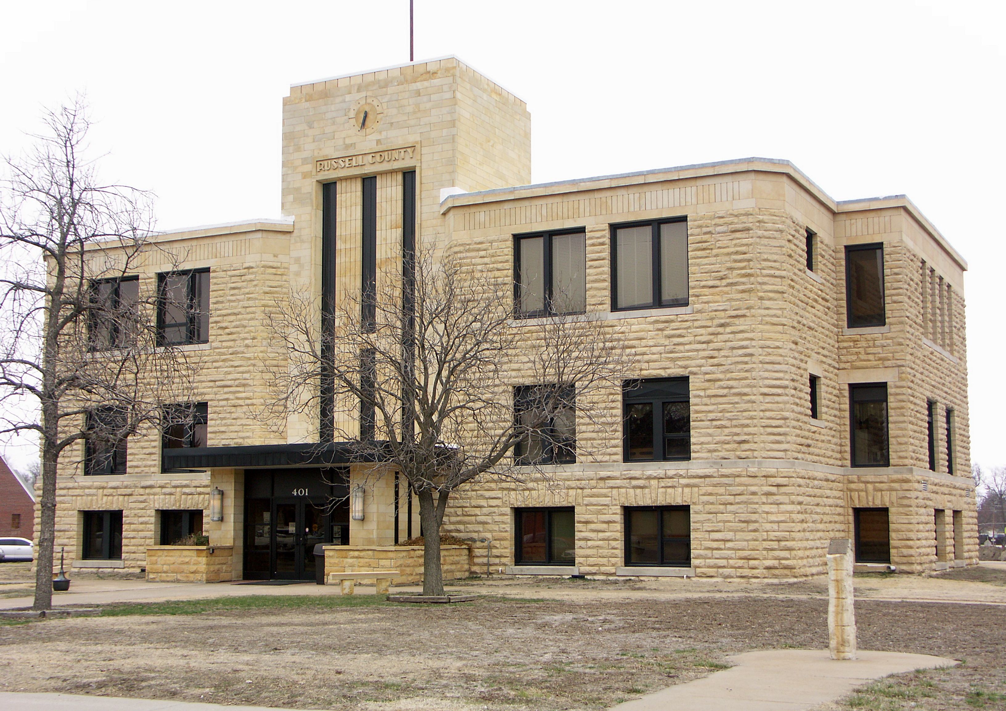 Russell County Court House, Russell.